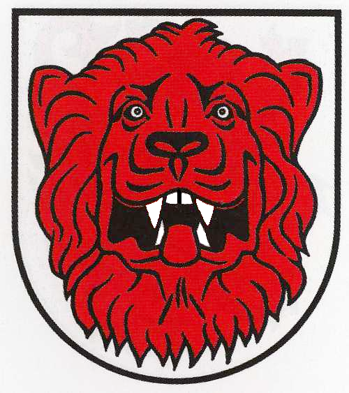 Coat of Arms of Altewiek, Part of Braunschweig